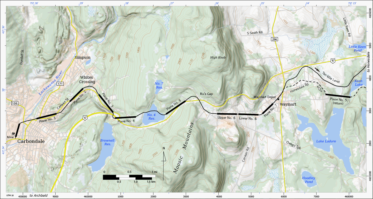 Map of the Delaware and Hudson Gravity Railroad from Carbondale to Waymart in 1844.